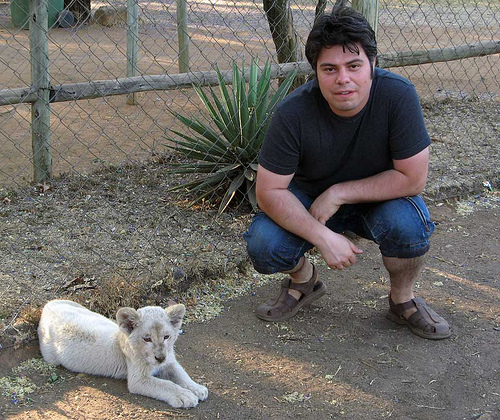 Boris Gorelik at the Lion Park, Johannesburg. October 2008